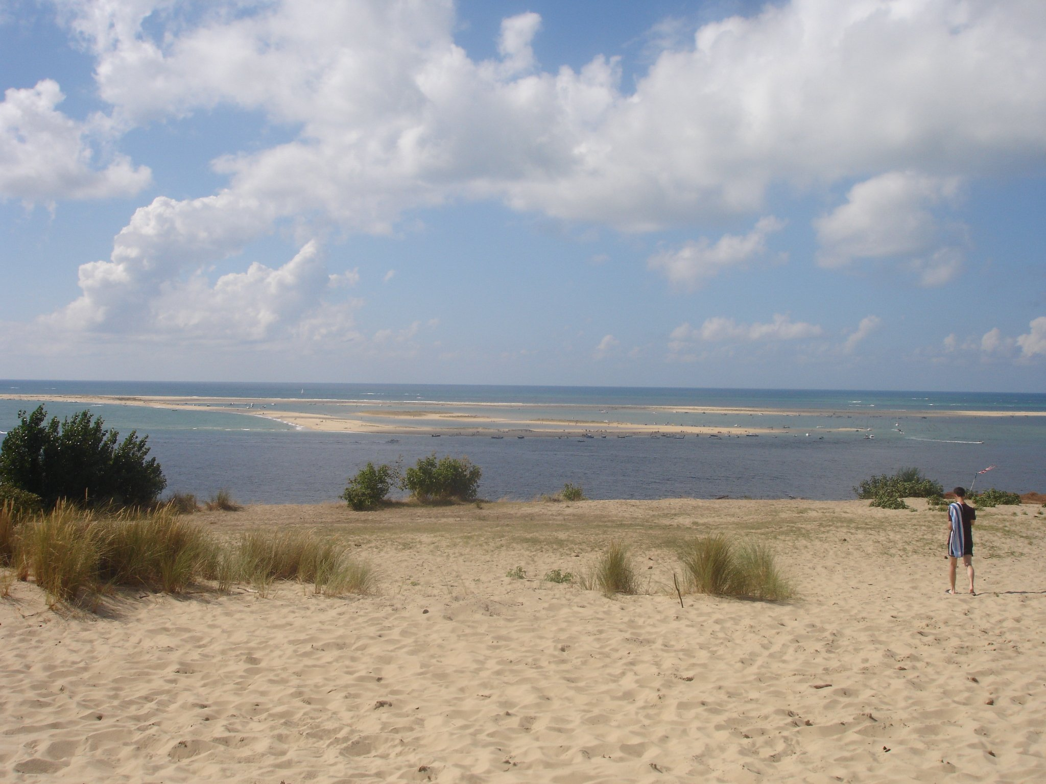 France, Gironde (33), Banc d'Arguin